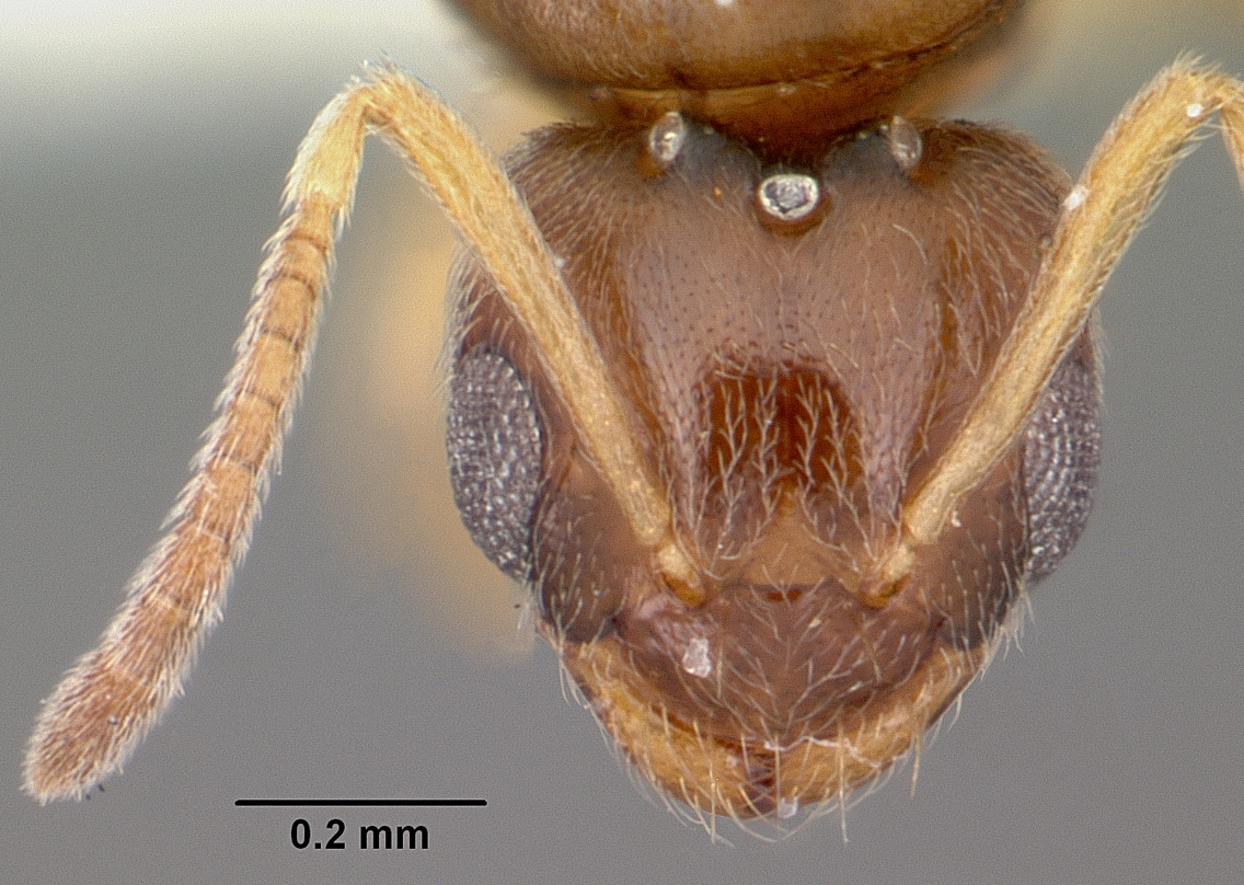 Head view of ant Plagiolepis alluaudi specimen casent0104937.